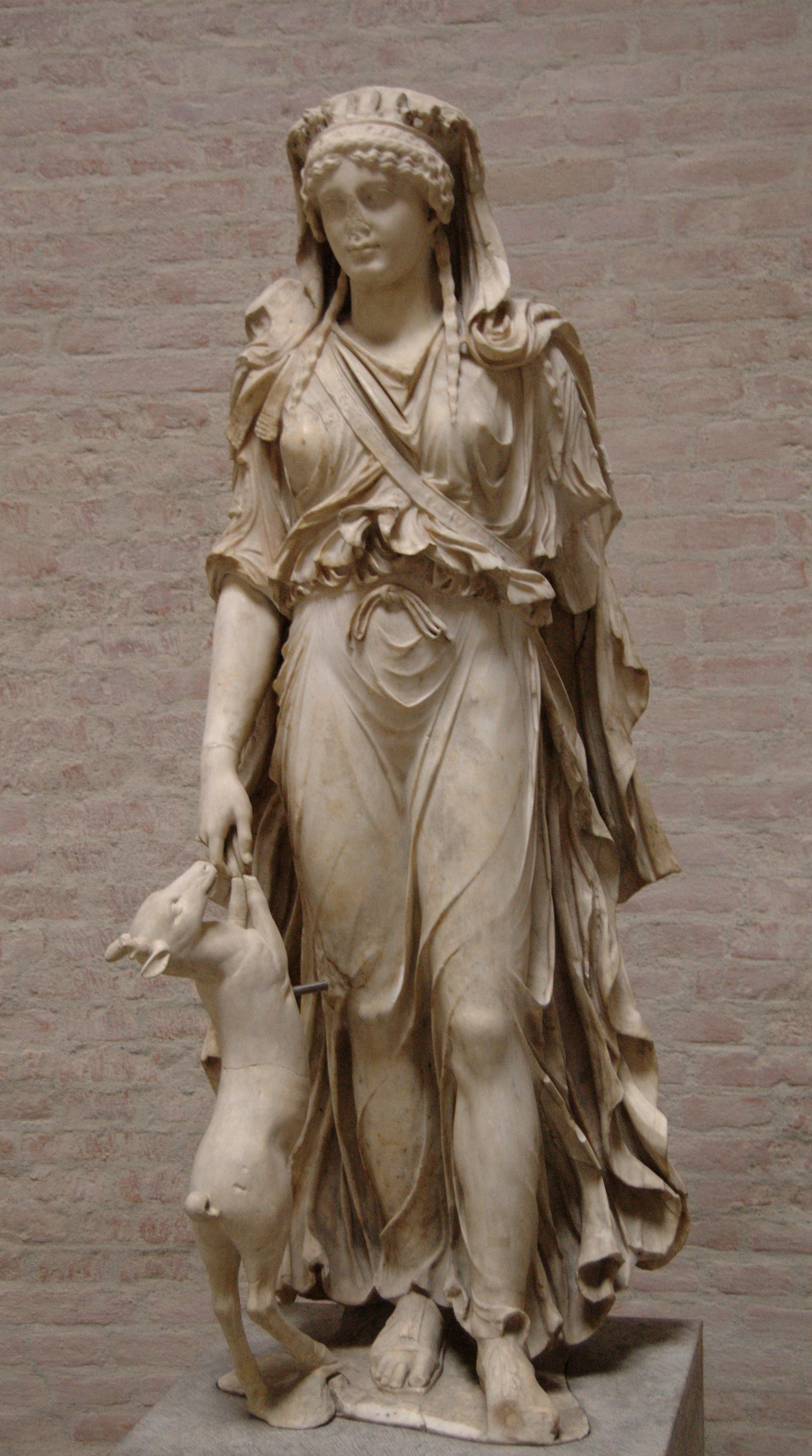 So-called “Artemis Braschi”. The goddess of hunt wears a worked crown (with little animal figures) and a veil. She holds the front legs of a young jumping fawn in her right hand, and a bow in her left hand. Over the torso, the belt of a quiver, decorated with animalist frieze. Roman work after a Greek original. 1st century CE.